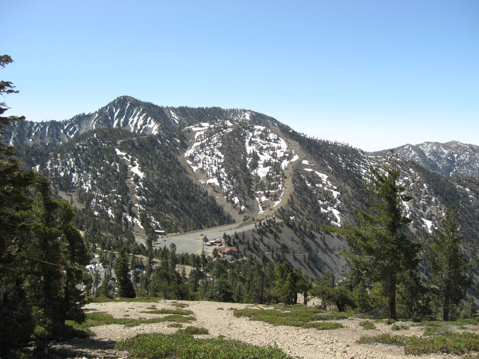 Thunder Mountain — in the Sierra Nevada, Amador County, California.